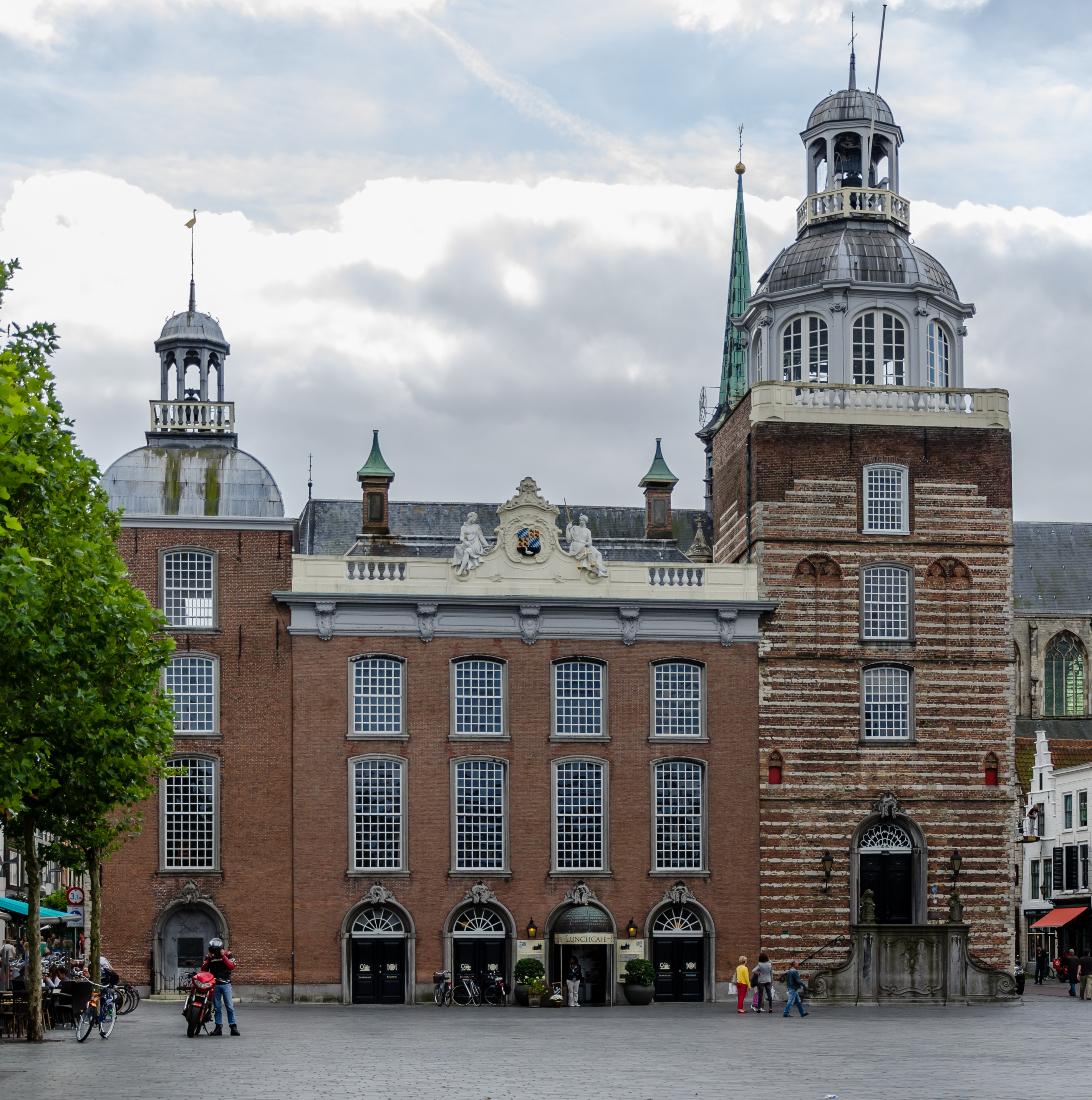 Town hall of Goes